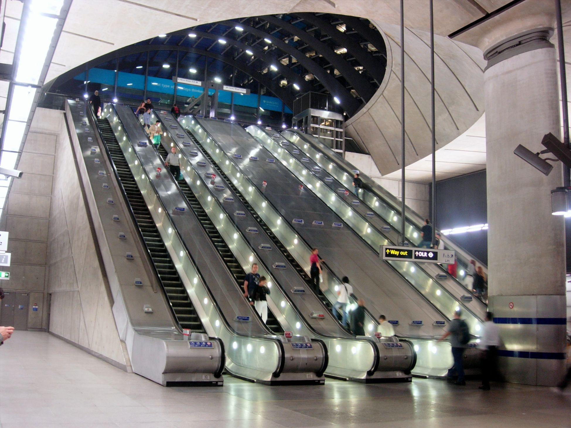 Canary Wharf tube station main entrance at night